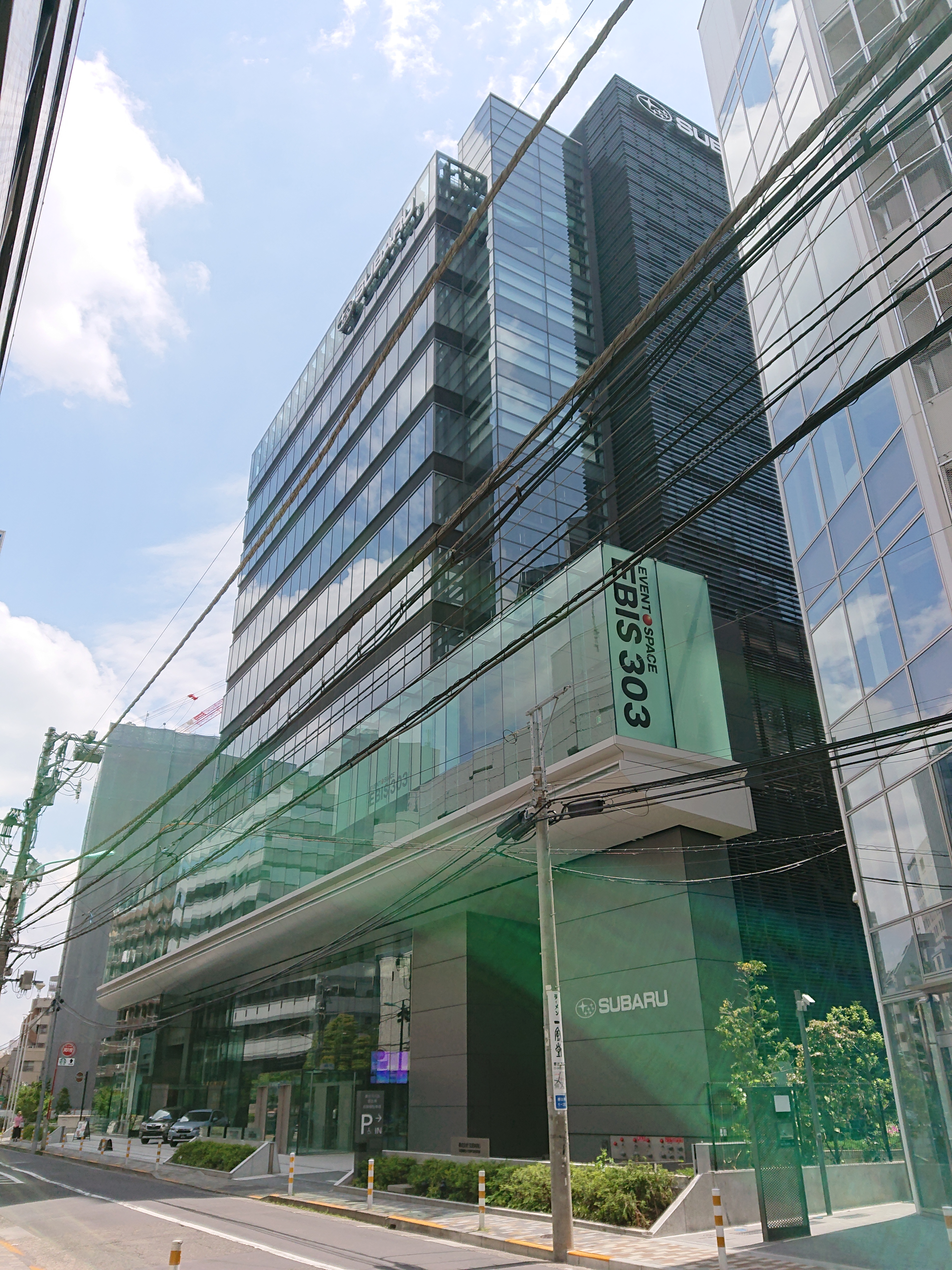 Ebisu Subaru Building, at 1-20-8 Ebisu, Shibuya, Tokyo, Japan